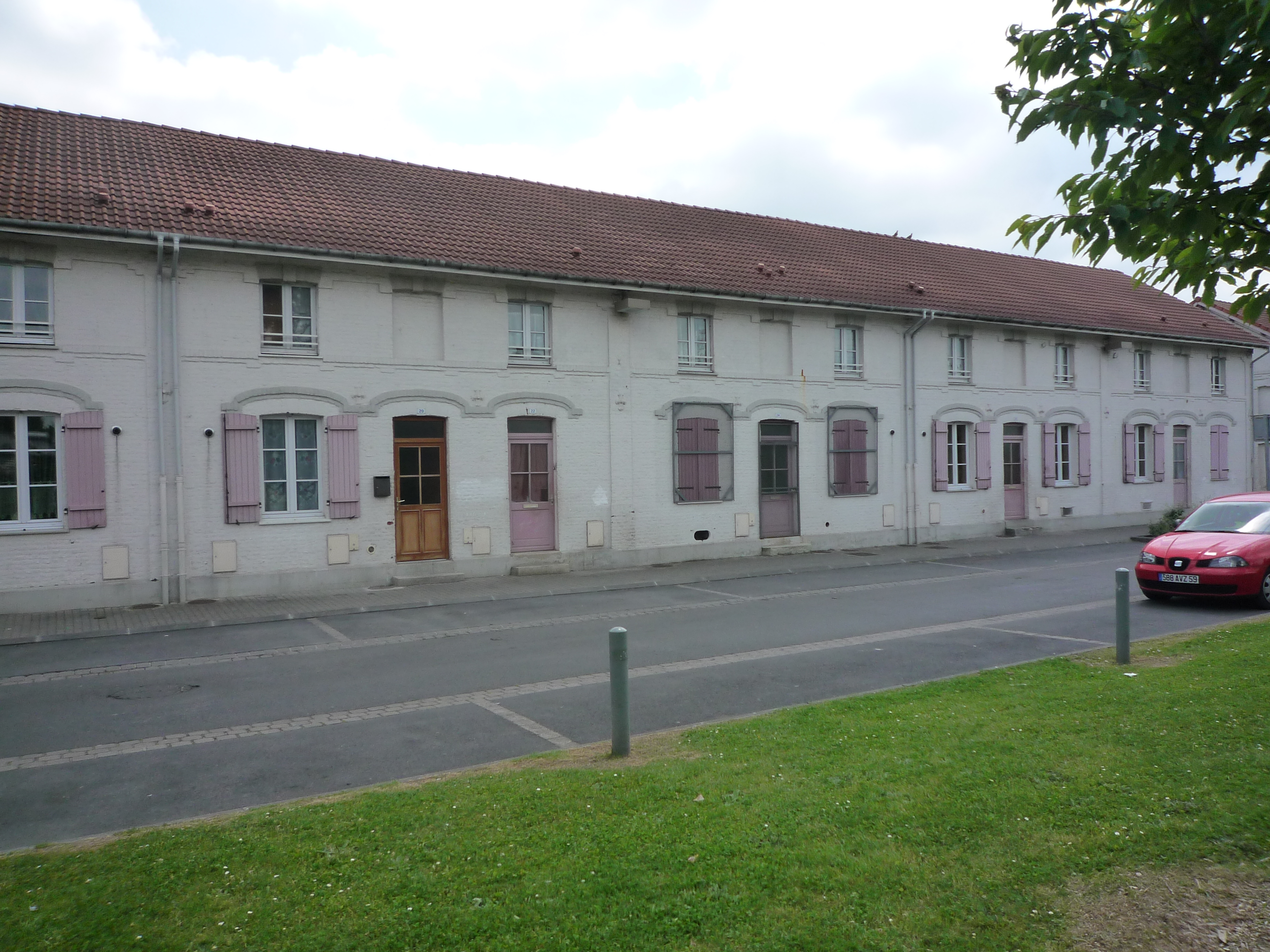 Coron des 120 at Anzin, France.